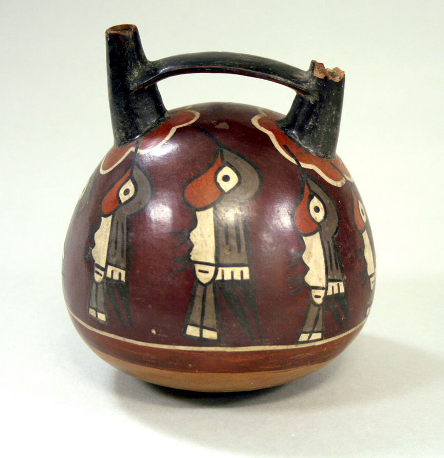 Nasca; Bottle; Ceramics-Containers